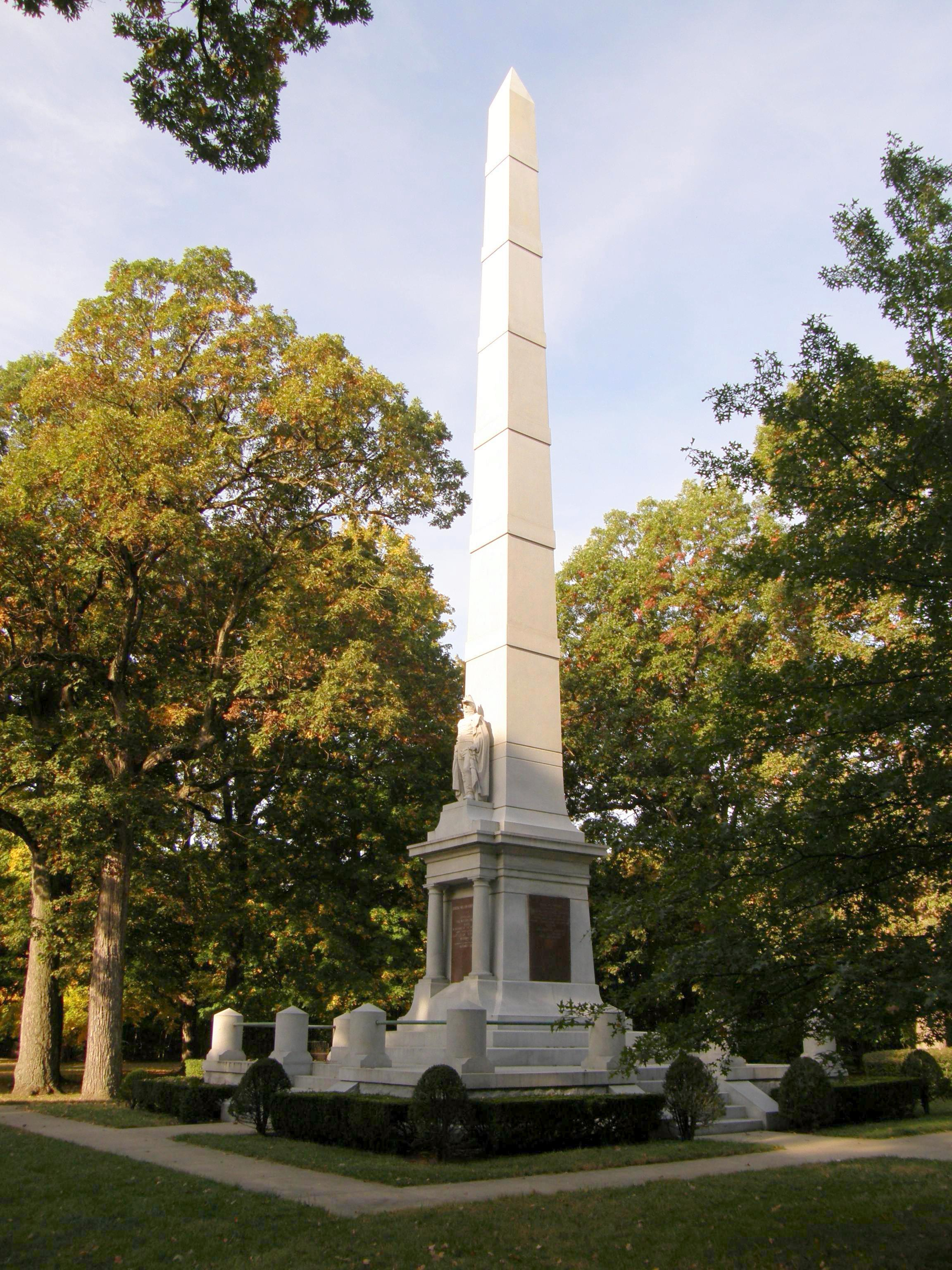 Tippecanoe Battlefield Park, Indiana - The Tippecanoe Battlefield and museum are located seven miles north of Lafayette, just off the St. Rd. 43 exit of I-65 at 200 Battle Ground Ave. in Battle Ground, Indiana.